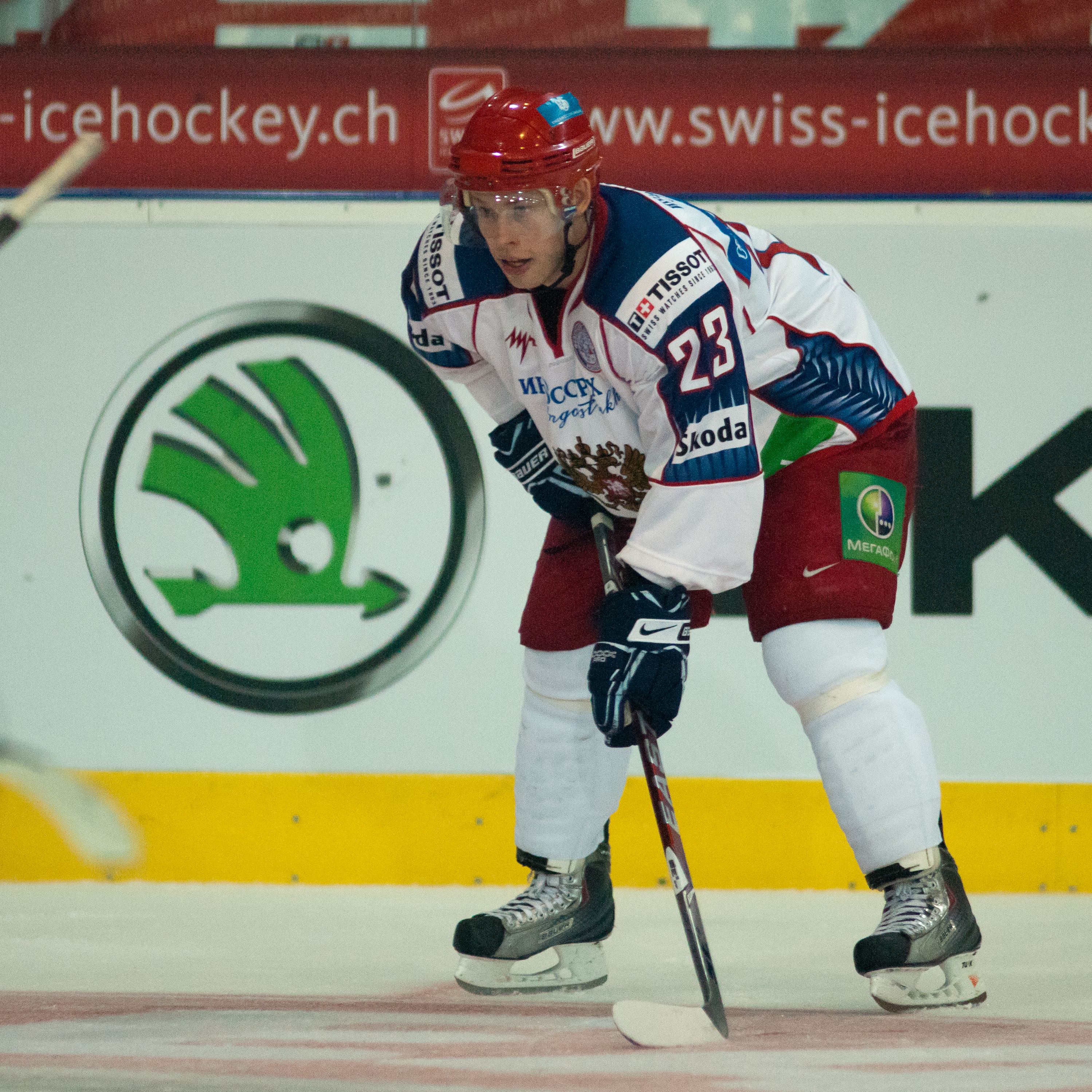 The making of this document was supported by Wikimedia CH. (Submit your project!) For all the files concerned, please see the category Supported by Wikimedia CH. Switzerland vs. Russia, 8th April 2011